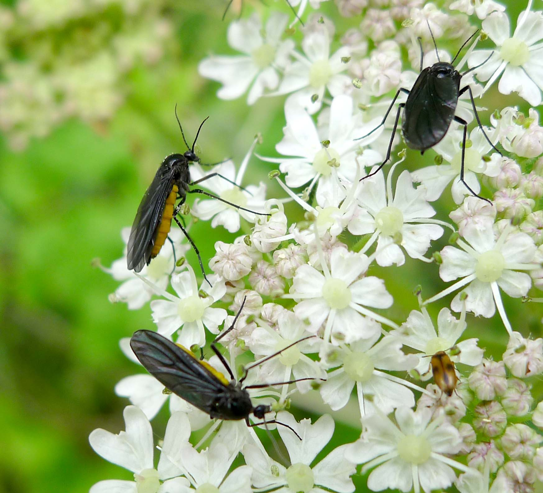 Feckenham Wildmoor.WWT , Worcs. UK. SP 012603